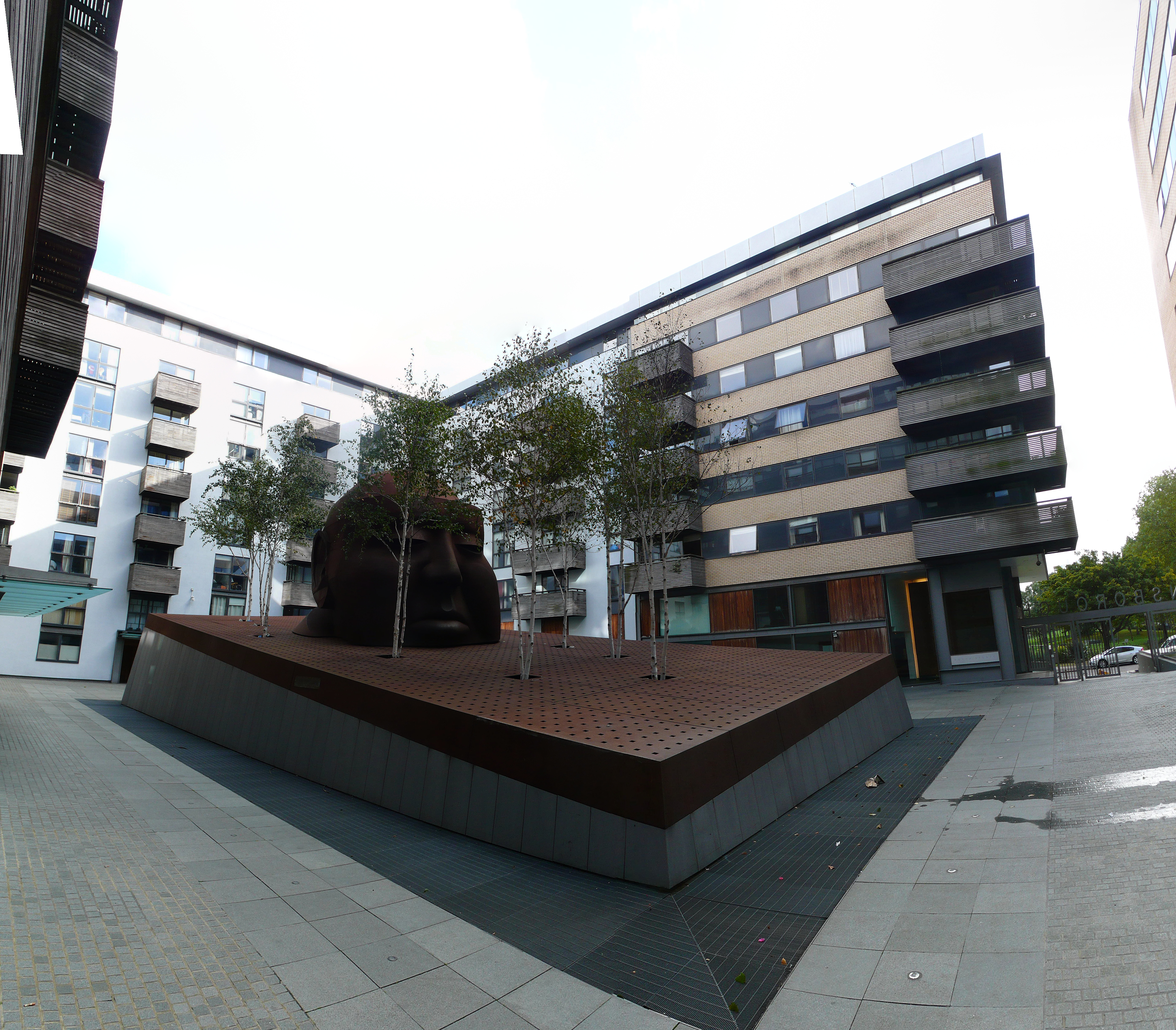 Sculpture of Alfred Hitchcock, Gainsborough Studios